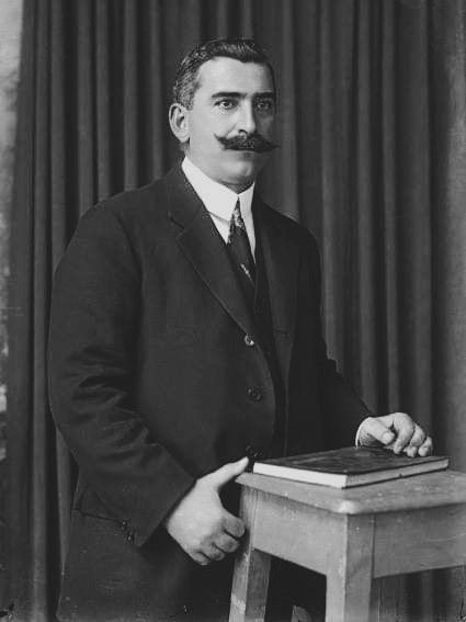 Luigj Gurakuqi, Albanian revolutionary and writer